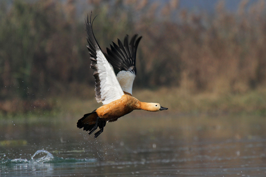 Ruddy Shelduck in flight in Gajoldoba, West Bengal, India.